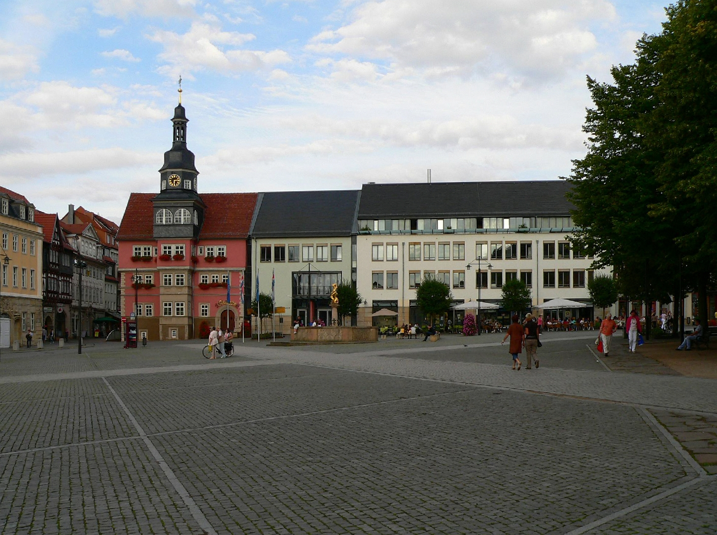 The marketplace in Eisenach.